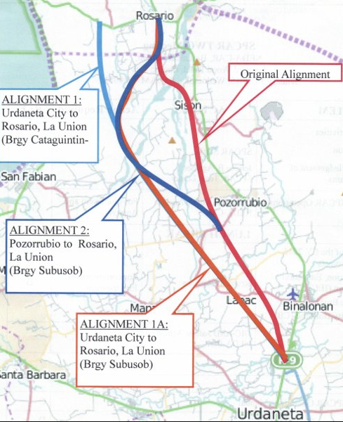 Map showing the alignment problem of proposed by Former Representative Mark Cojuangco